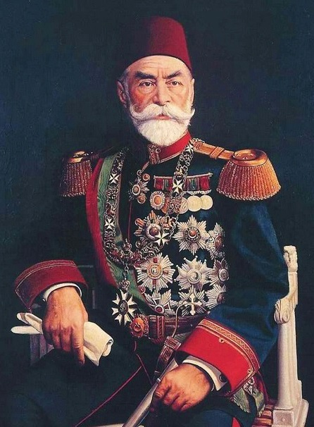 Ahmet Muhtar Pasa during the second half of the 19th century